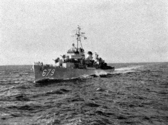 The U.S. Navy destroyer USS McNair (DD-679), in 1952. She was assigned to the screen of the battleship USS Missouri (BB-63) operating off Korea.